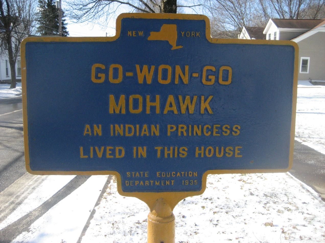 Historic marker of Go-Won-Go, an Indian Princess, who lived in this house in Greene, NY